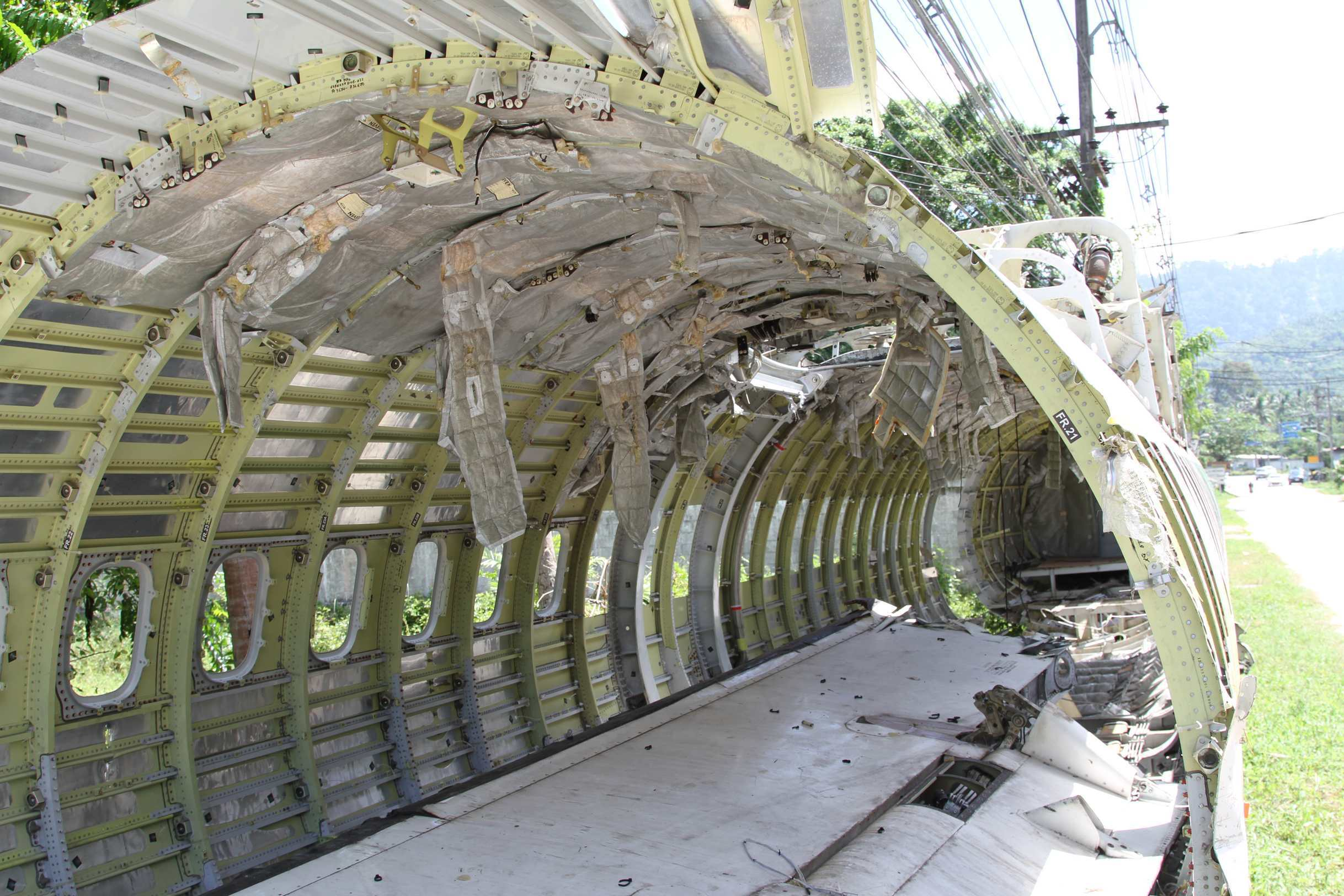 The remains of the ATR72 of Koh Samui as she sits at July 2013